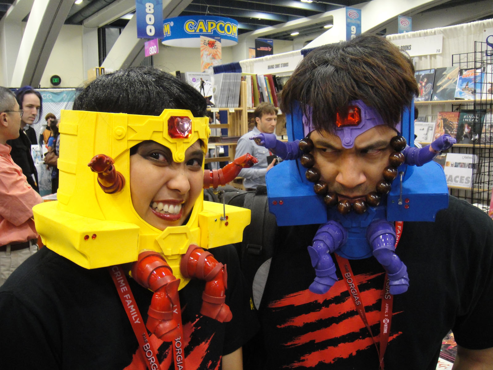 WonderCon 2011 - MODOK costumes